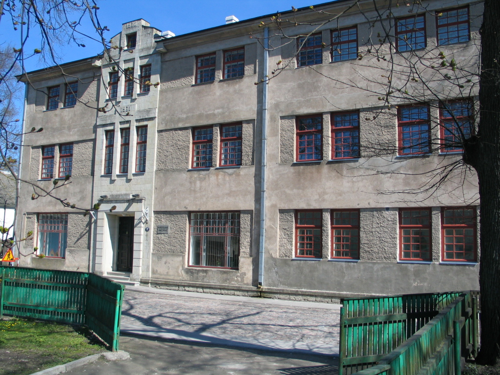 Kuressaare Vocational School